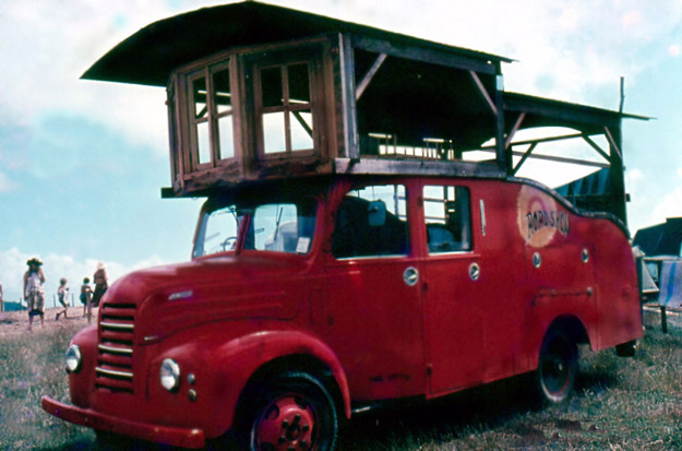 Image (photograph) taken at the 1981 Nambassa 5 day festival by Official Nambassa Photographer and uploaded by User:Mombas 02:38, 7 May 2007 (UTC) Nambassa dot com Terms of Use: 1/ All users of this image are required to attribute this work to "Nambassa Trust and Peter Terry" and the url: " " is to accompany all use. 2/ Attribution. You must attribute the work in the manner specified by the author or licensor. 3/ For any reuse or distribution, you must make clear to others the license terms of this work. Statement by Nambassa Trust and Peter Terry